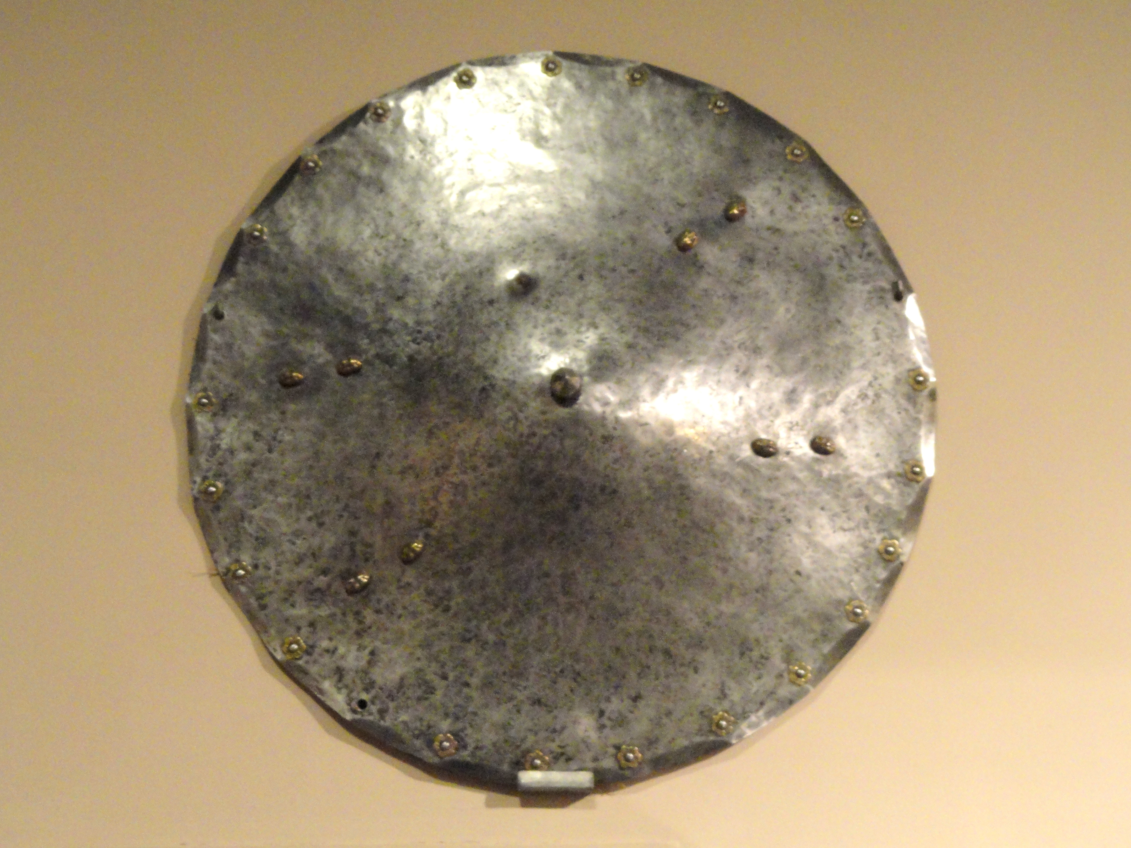 Exhibit in the Higgins Armory Museum, 100 Barber Avenue, Worcester, Massachusetts, USA. The museum permitted photography without any restriction, both in writing and when I asked verbally.